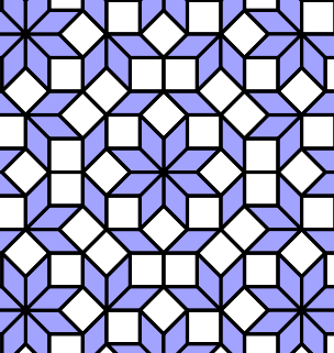 Ammann-Beenker tiling File:Ammann–Beenker_tiling1.svg center